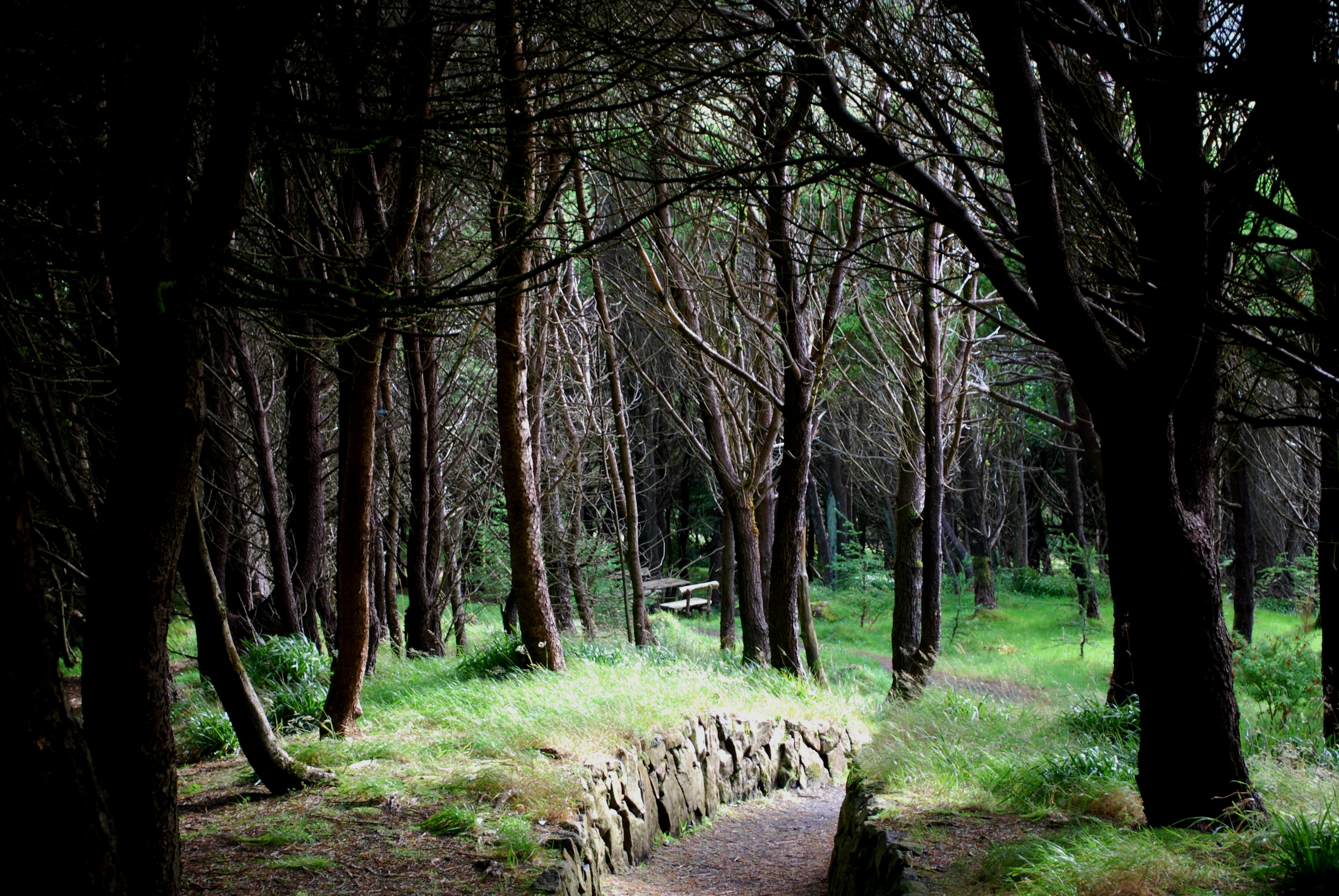 The Park of Viðalundin in Trongisvágur, Suðuroy, Faroe Islands